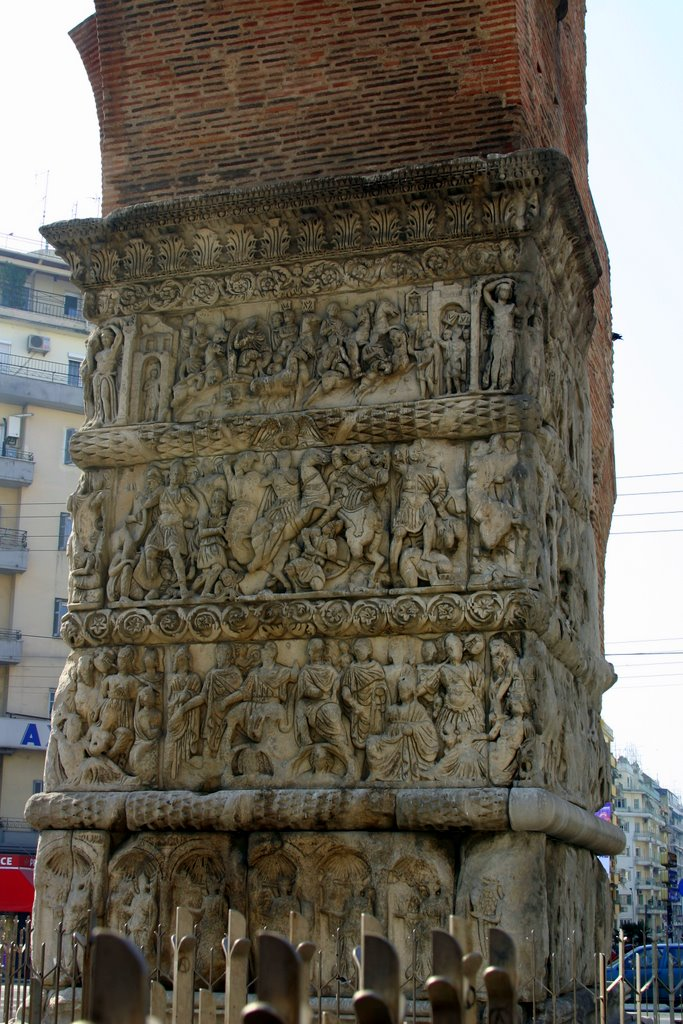 Thessaloniki, Greece